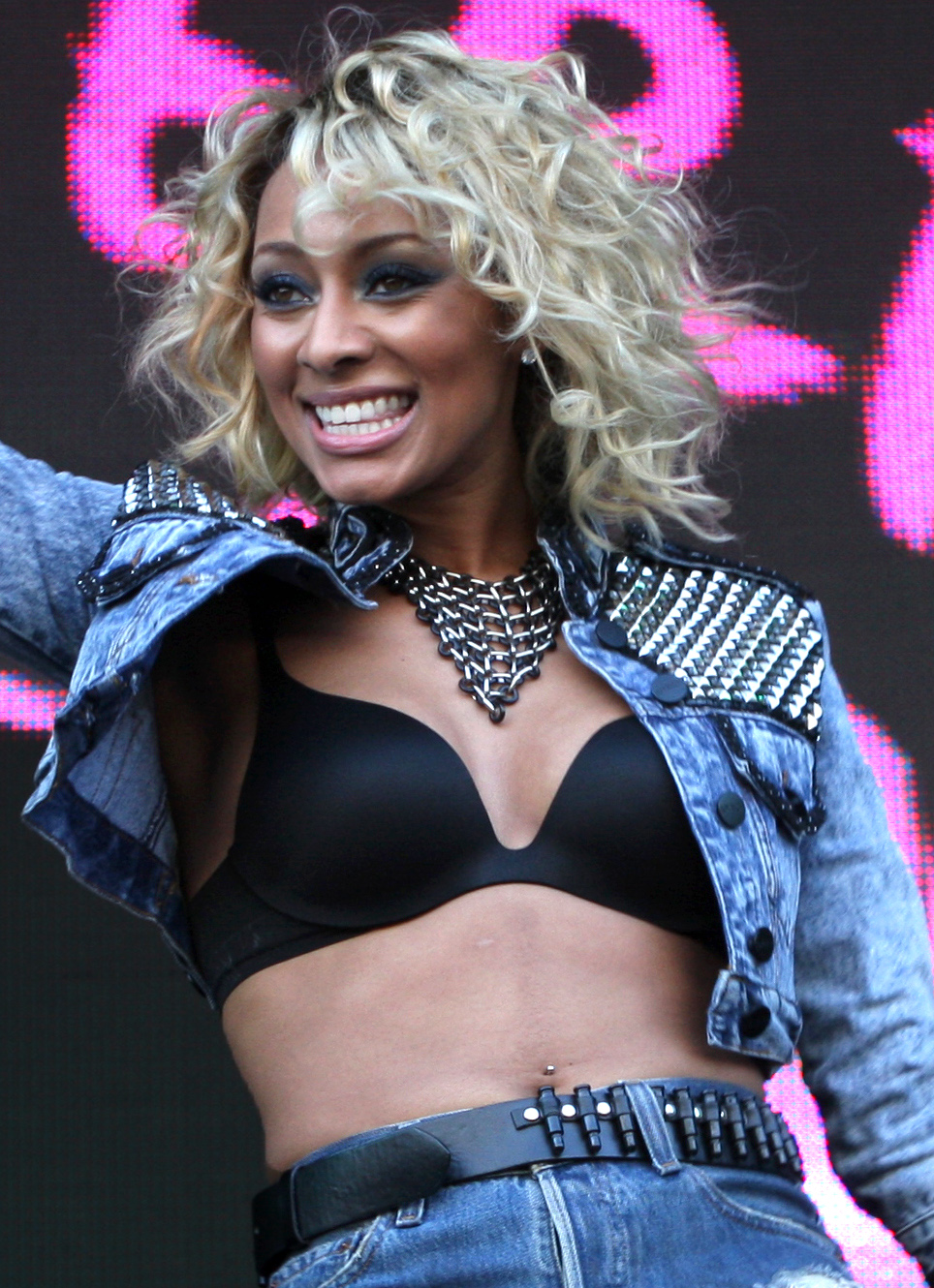 Keri Hilson performing at Supafest in Australia, April 2011